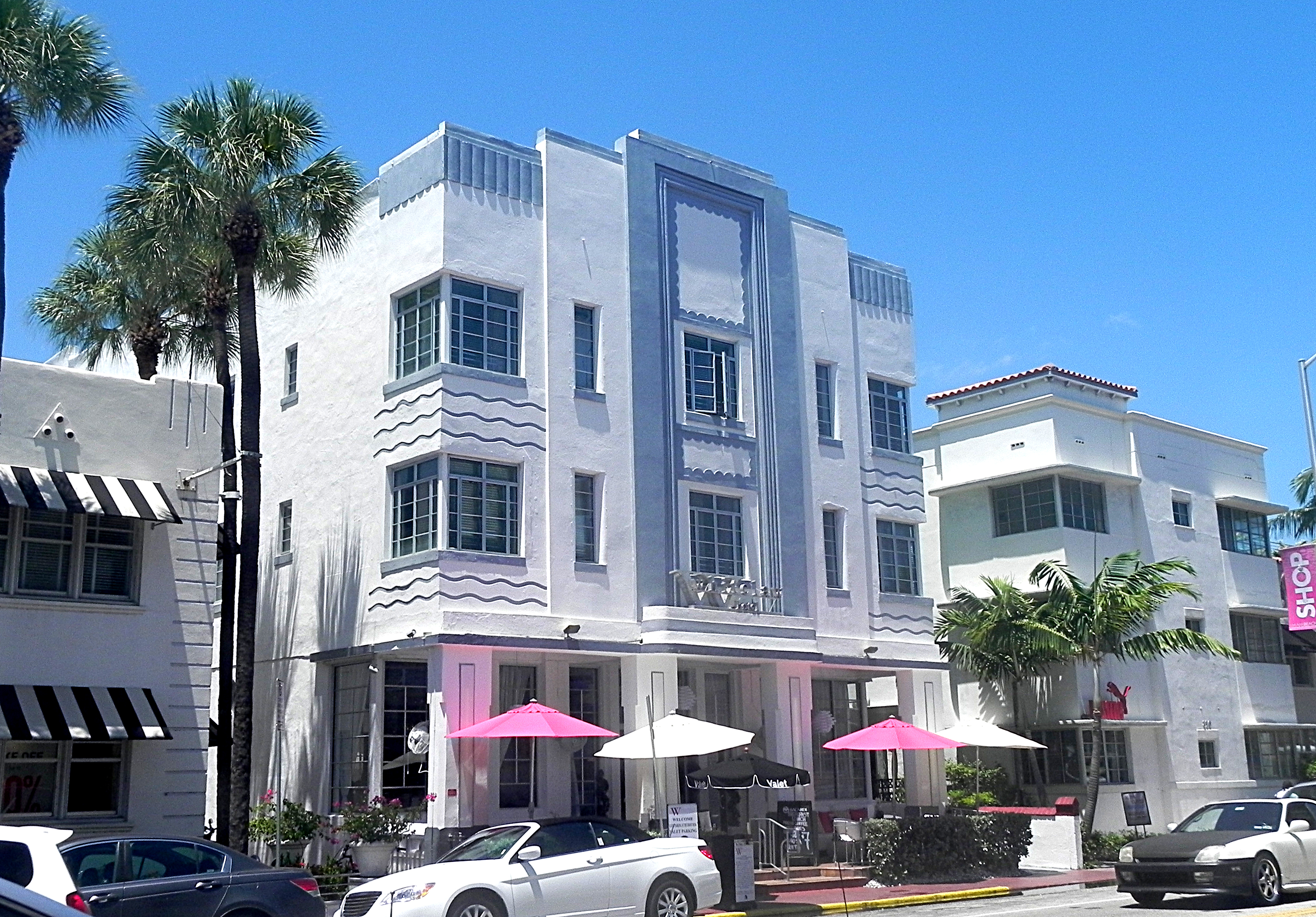 Art Déco Historic Districts - Whitelaw Hotel - Miami